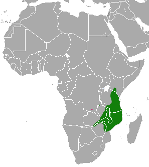 Bushy-tailed Mongoose (Bdeogale crassicauda) range (green - extant, pink - probably extant)